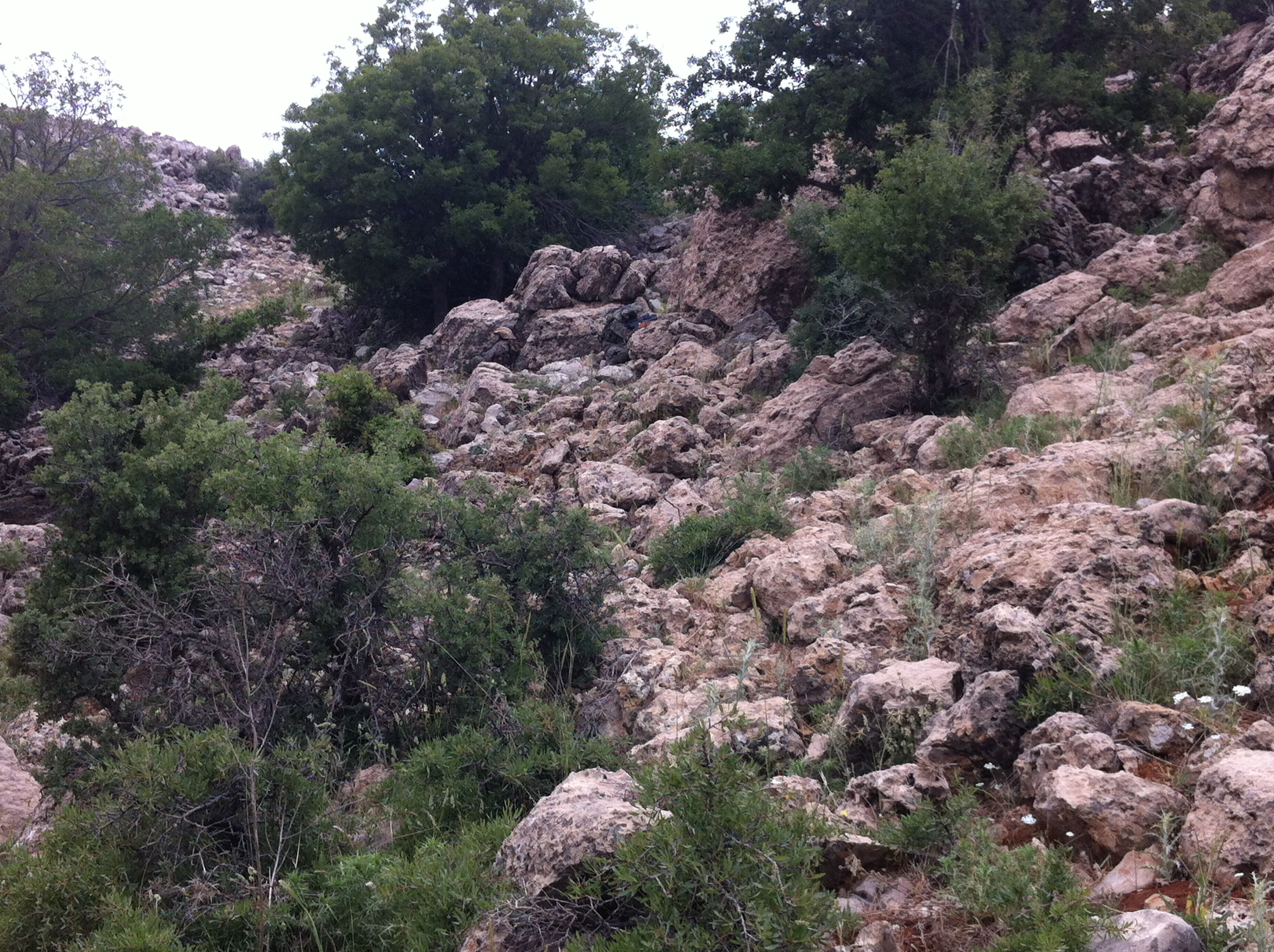 IDF soldiers from the elite Egoz reconnaissance unit -- guerrilla warfare specialists -- blend into the landscape of northern Israel. Can you spot them? (Hint: There are two soldiers in this photo.) Featured as IDF Photo of the Day on May 30, 2012 The Israel Defense Forces Facebook The Israel Defense Forces blog The Israel Defense Forces website The Israel Defense Forces Twitter